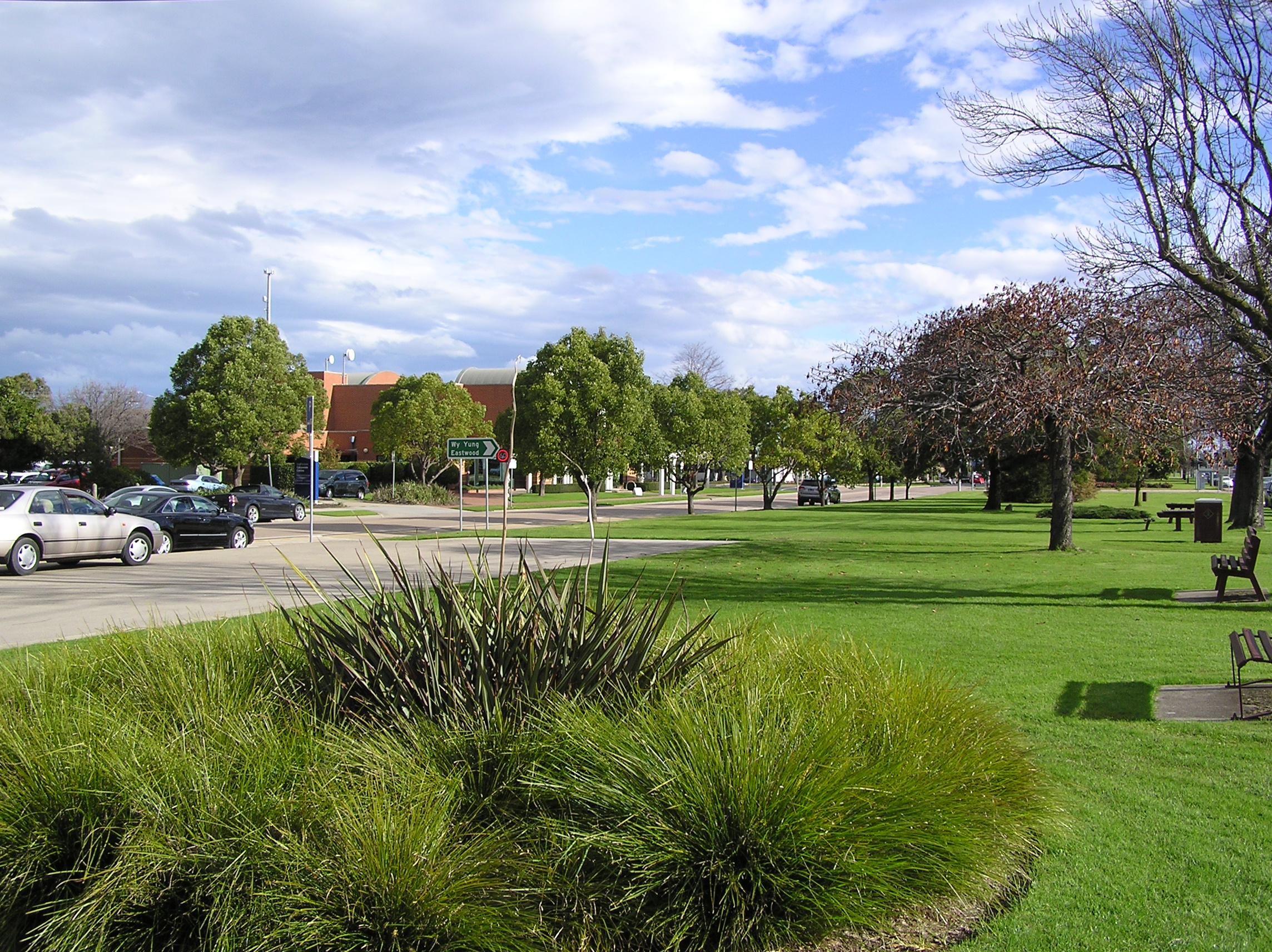 Bairnsdale gardens near the council office in main street